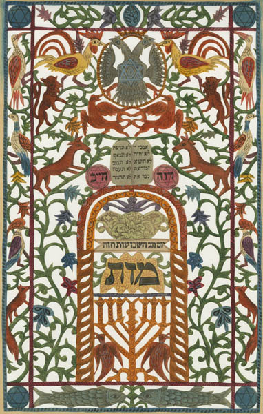 Papercut, early 20th century, possibly Eastern Europe